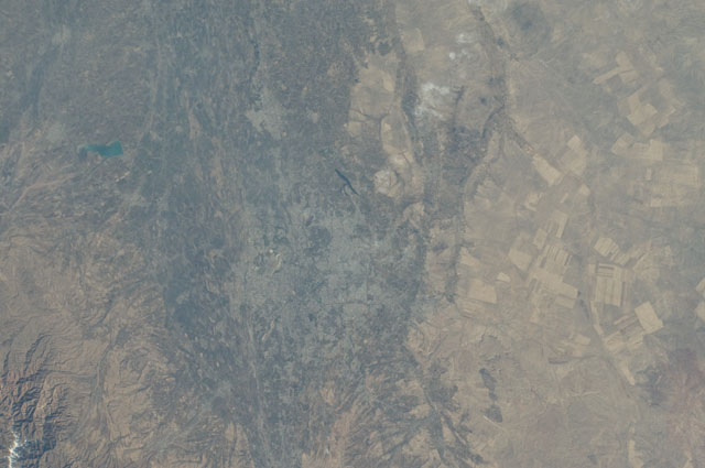 Aerial Photo of Tashkent, Uzbekistan taken from the International Space Station (ISS) during Expedition 29 on November 3, 2011.